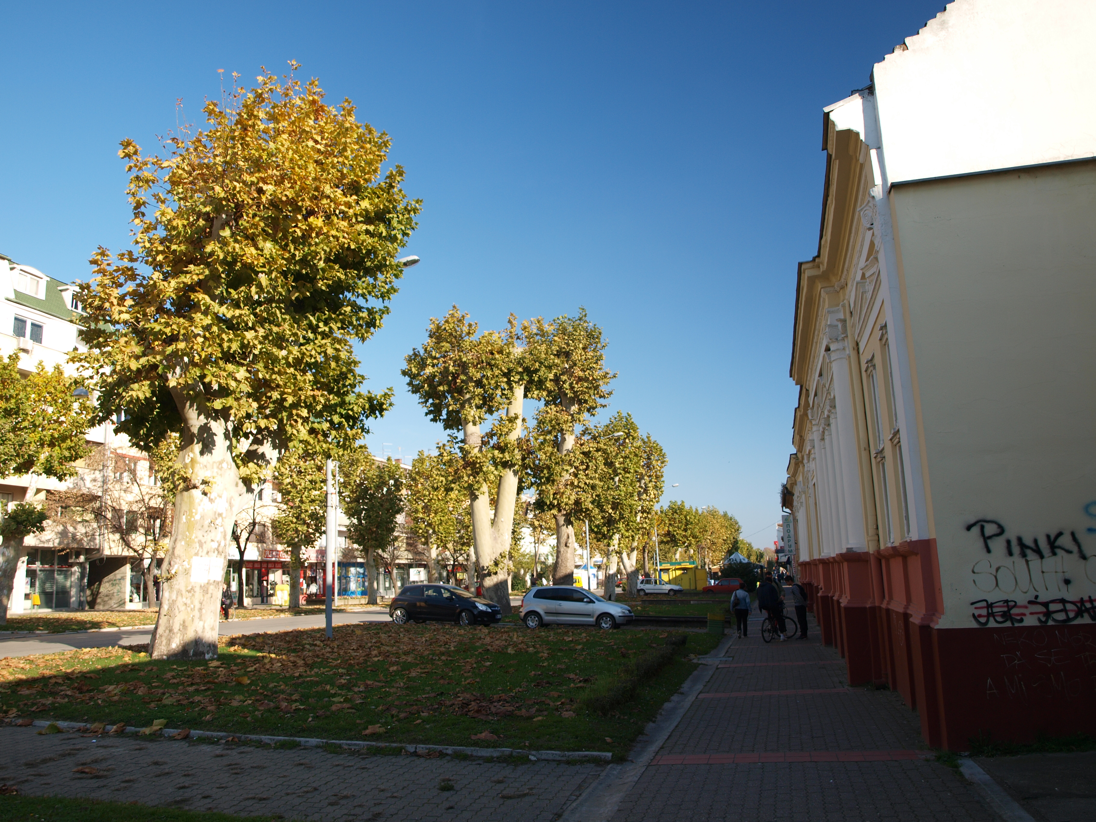 Main street "Kralja Petra" in Bačka Palanka, Vojvodina, Srbija.